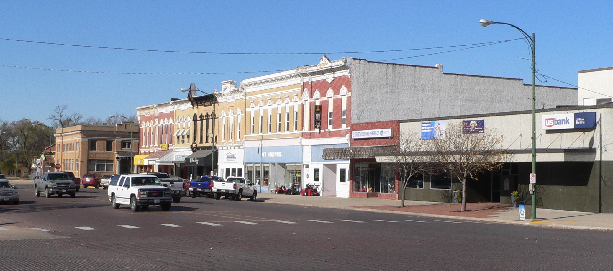 David City, Nebraska: north side of E Street, looking northwest from 5th Street.